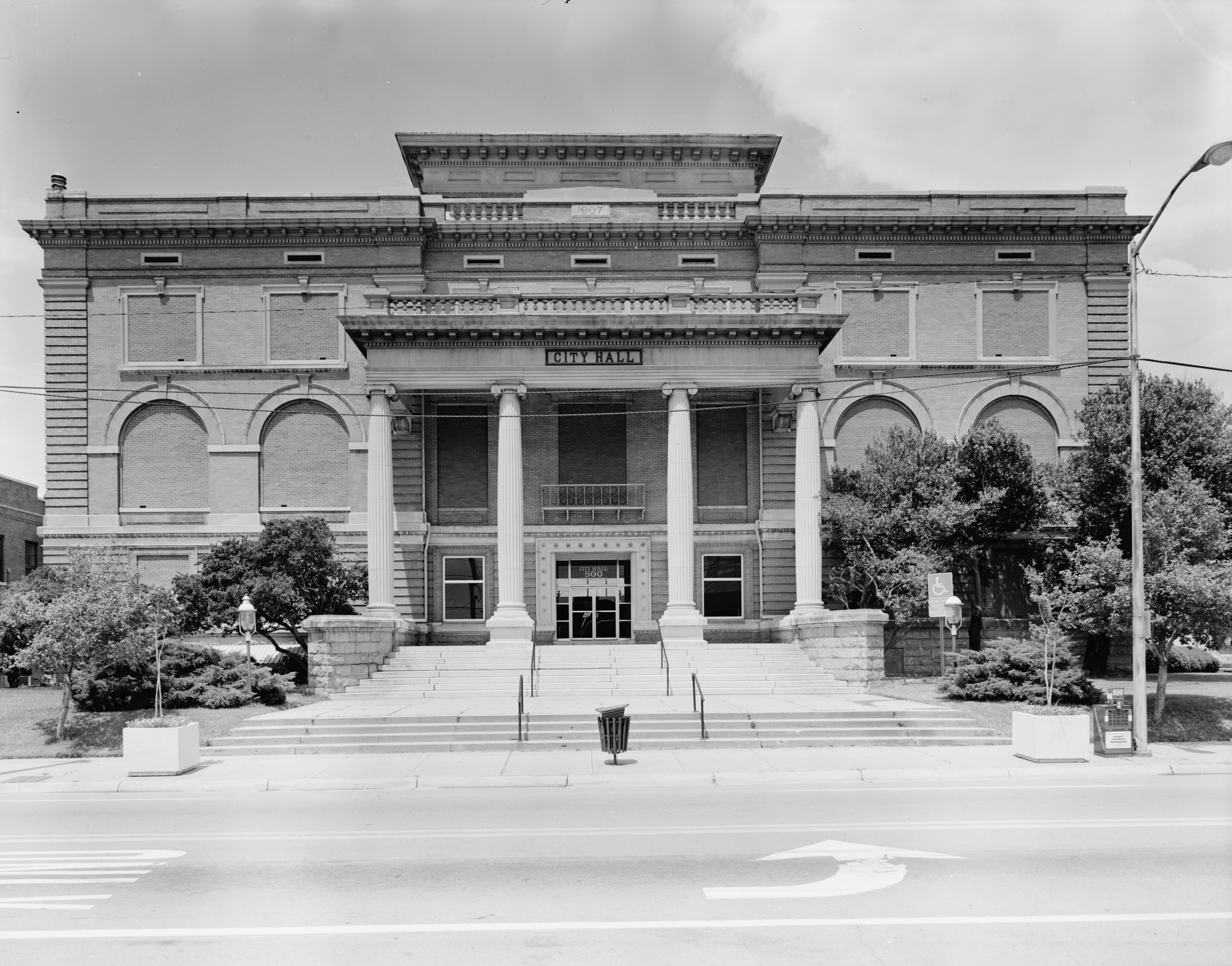 Front of the Little Rock City Hall, located at 500 W. Markham Street in Little Rock, Arkansas, United States. Built in 1907, it is listed on the National Register of Historic Places.